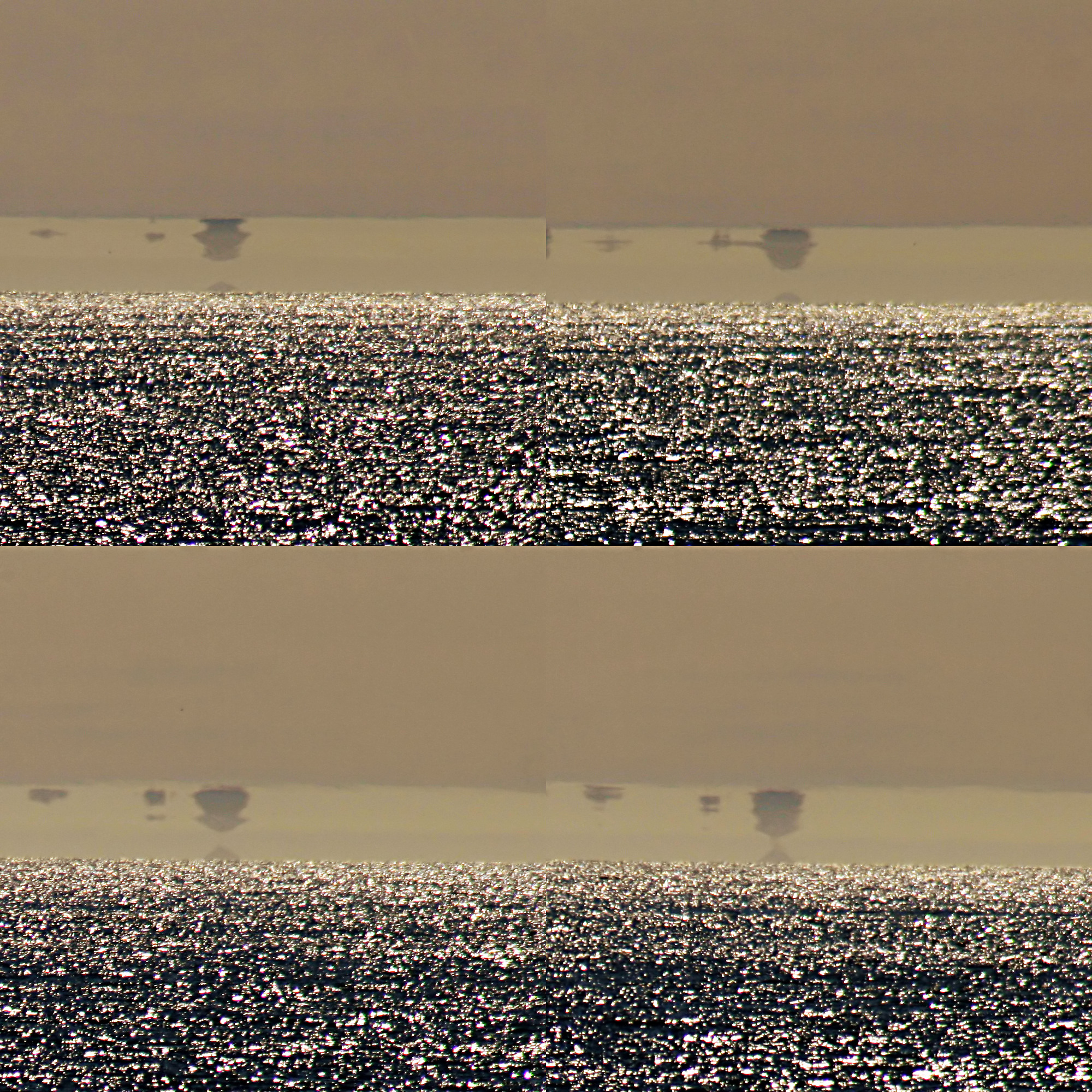 Fata Morgana (mirage) of islands